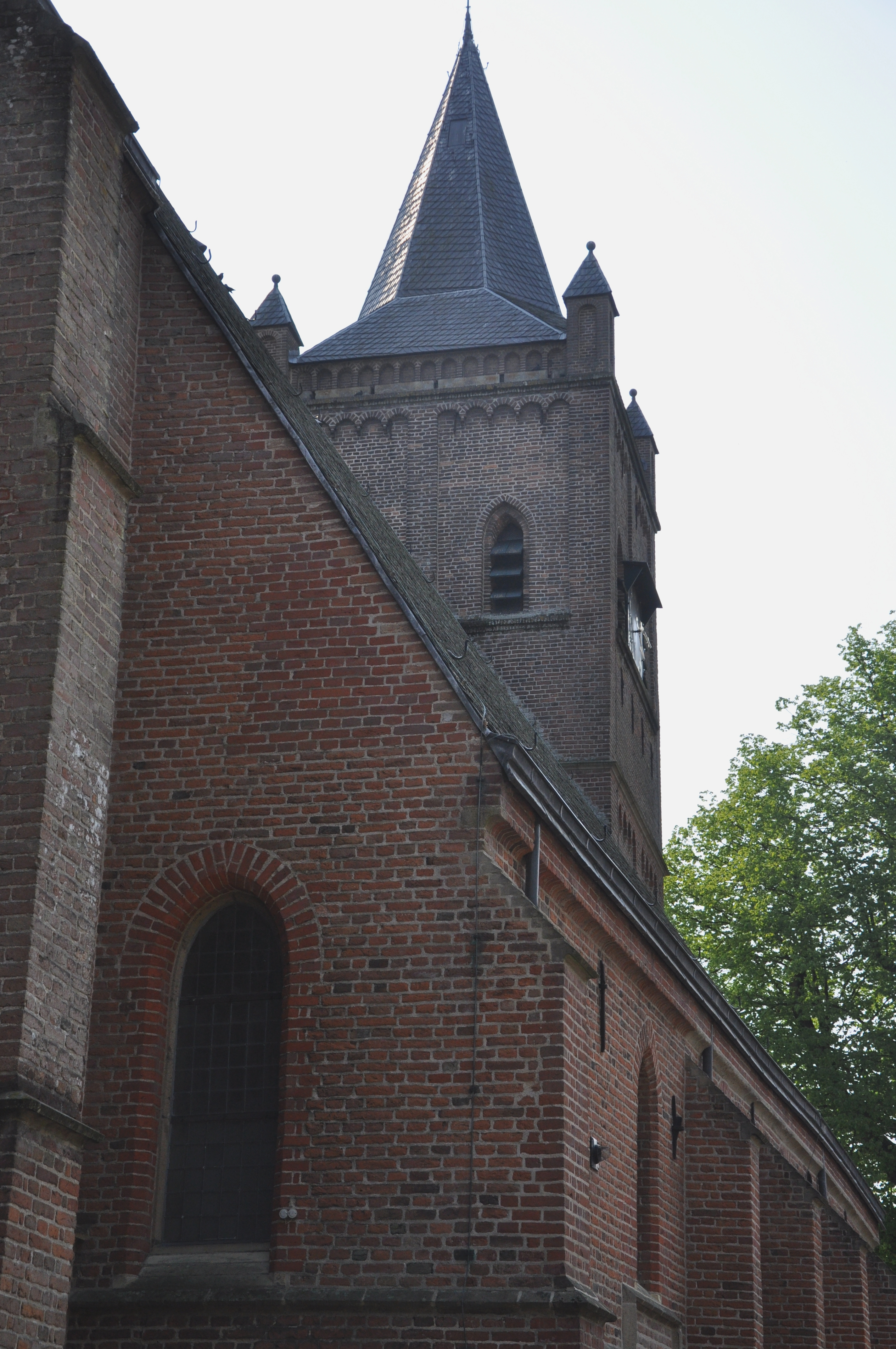 Reformed church Beekbergen